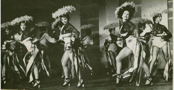 a dancing scene, from a 1955 souvenir program for Me and Juliet. Lacks any copyright notice, so it is no longer under copyright. Image can be found here